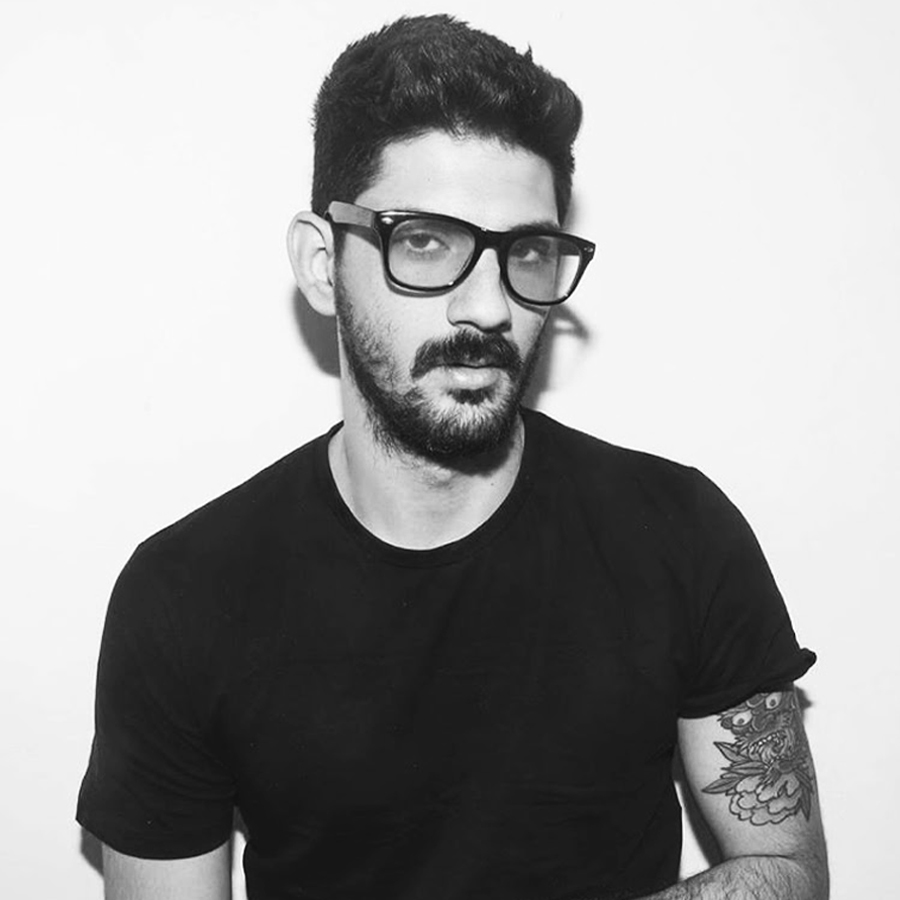 Portrait Leonardo Glauso 2018